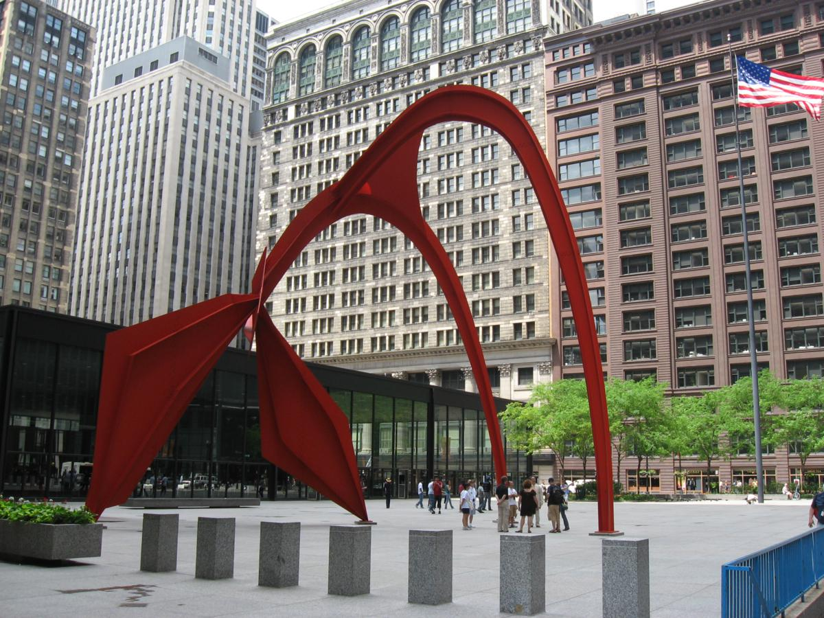 Flamingo Chicago